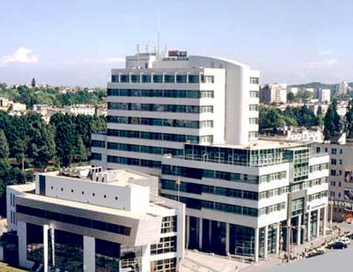 Baltic Business Center complex of buildings in Gdynia, Poland.